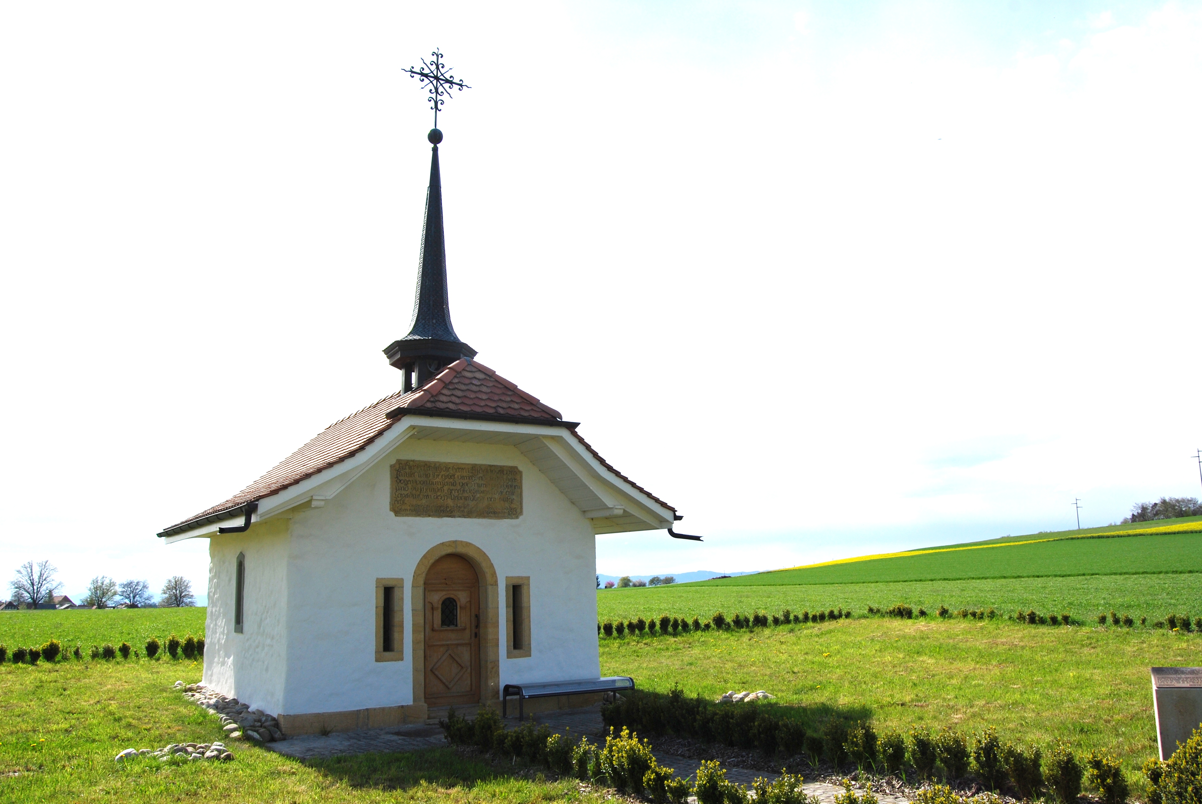 Chapel St Urbain at Cressier, canton of Fribourg, Switzerland